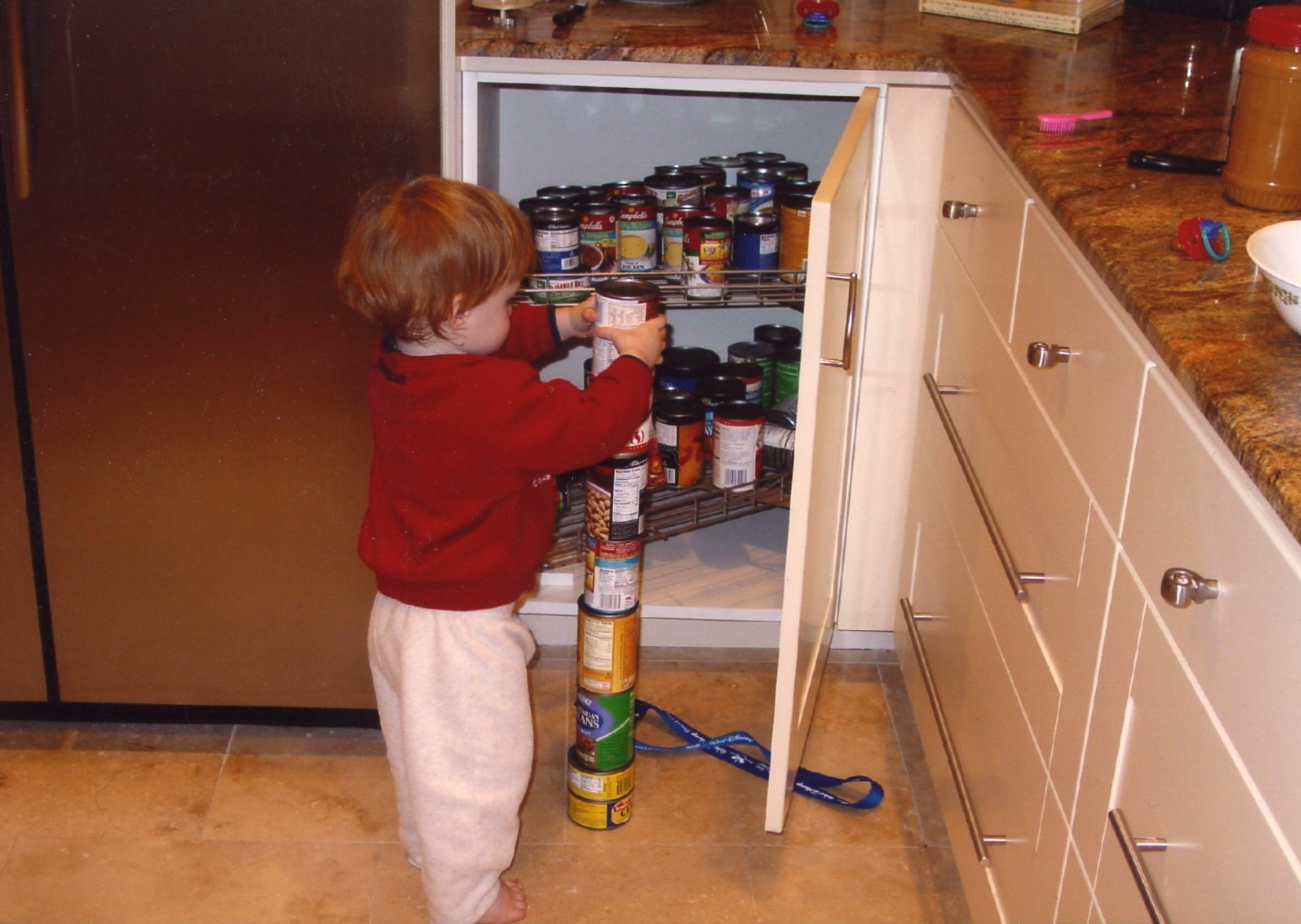 Subject: Quinn, an ~18 month old boy with autism, obsessively stacking cans See more about Quinn at: Date: Late 2002 Place: Walnut Creek, California Photographer: Andwhatsnext Scanned photograph Credit: Copyright (c) 2003 by Nancy J Price (aka Mom)